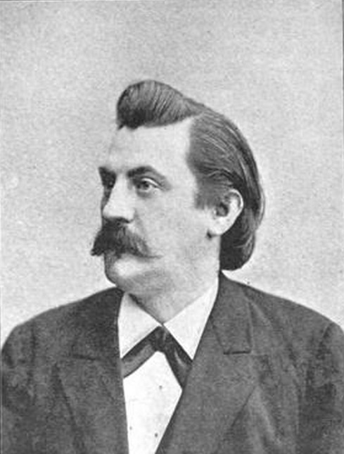 German pianist, composer and teacher Hermann Scholtz (1845-1918)